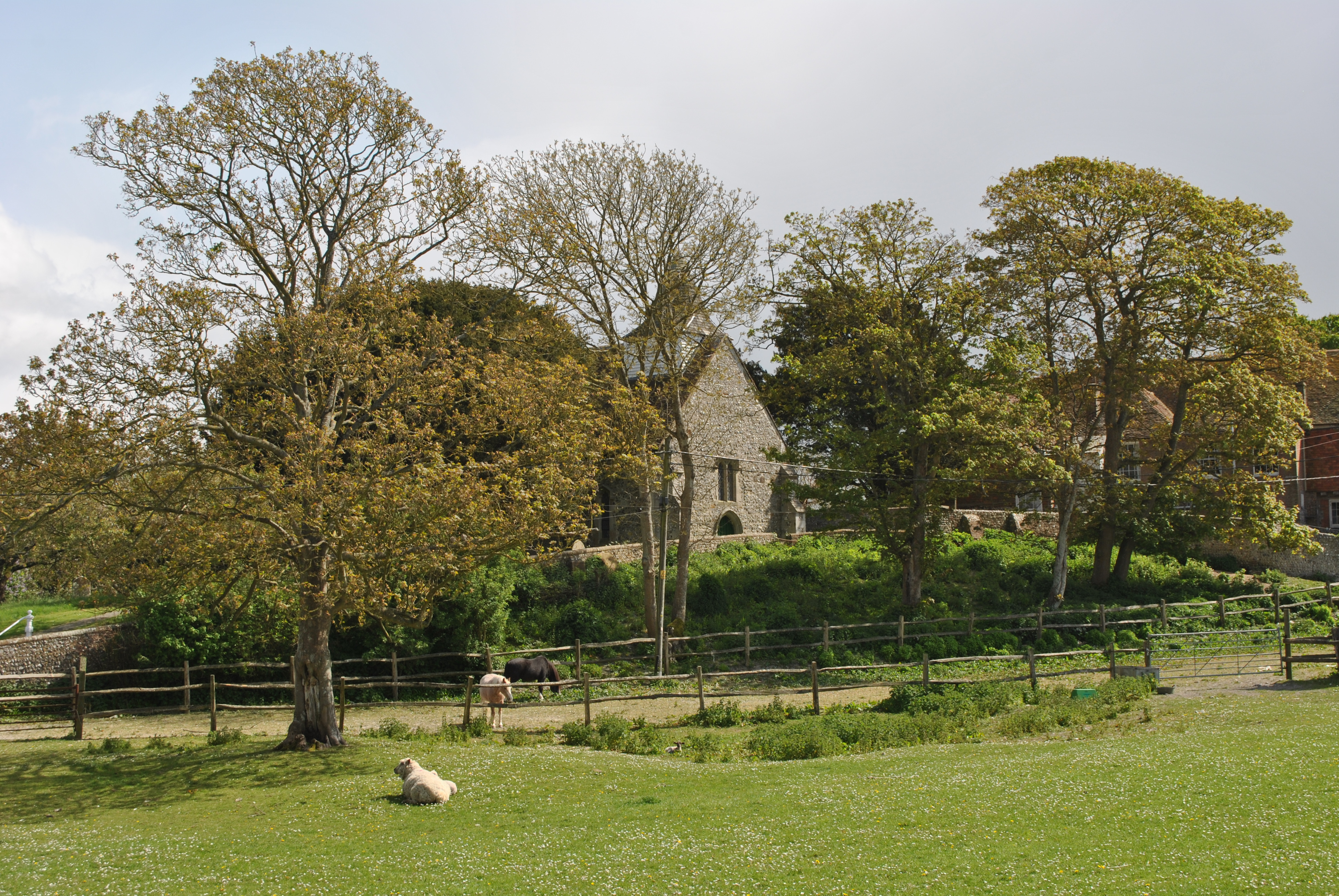 Alciston, 2017, Originally published in Queer Places, Vol. 2.1: Retracing the Steps of LGBTQ people around the World